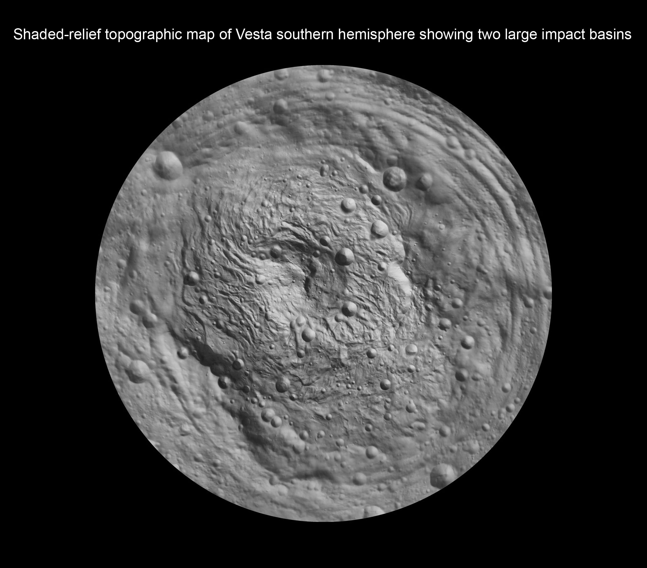 Shaded-relief topographic map of Vesta southern hemisphere showing two large impact basins. GSA Panel Presentation - Paul Schenk 2.